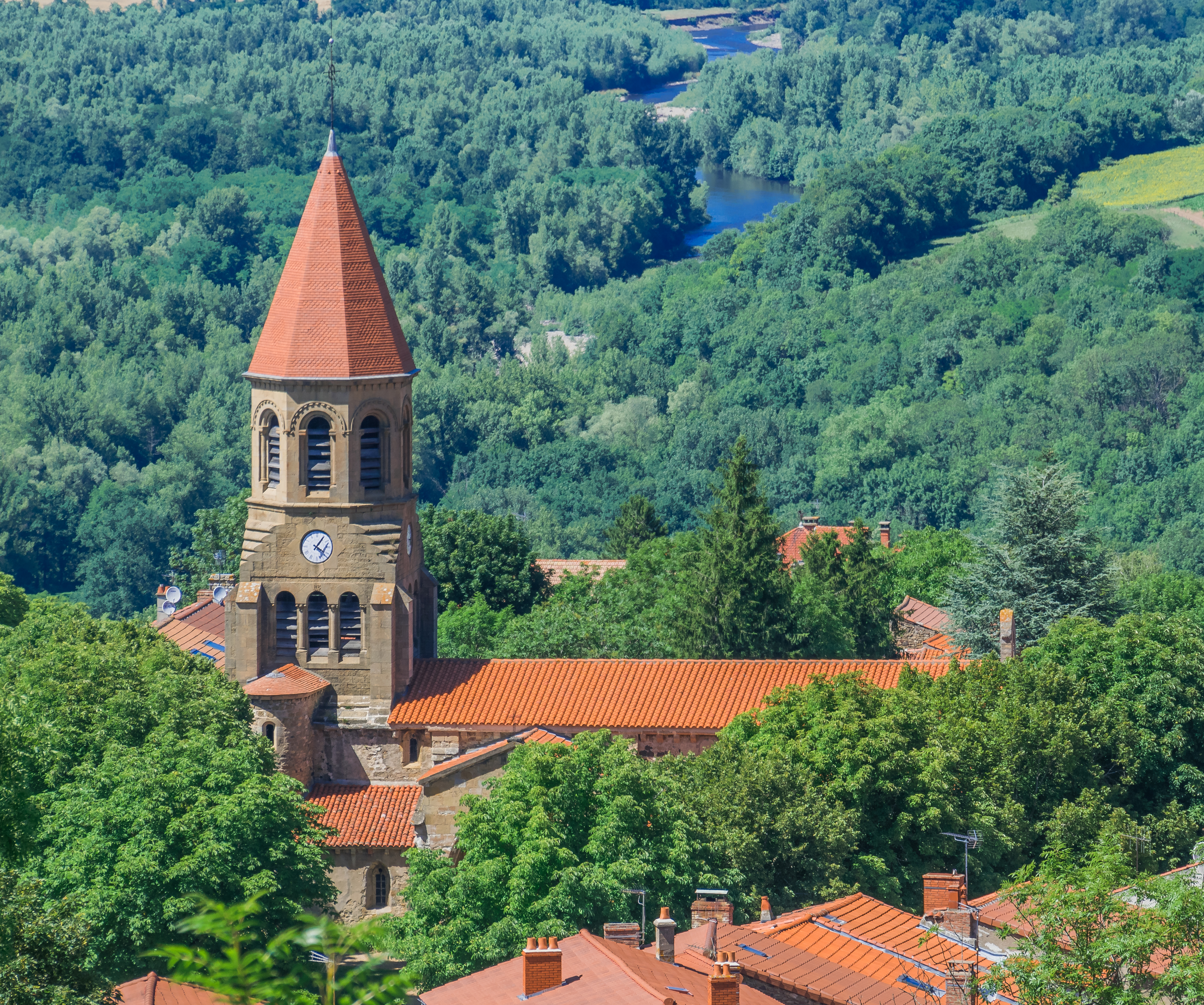 View of the Saint Nicholas Church of Nonette, Puy-de-Dôme, France .